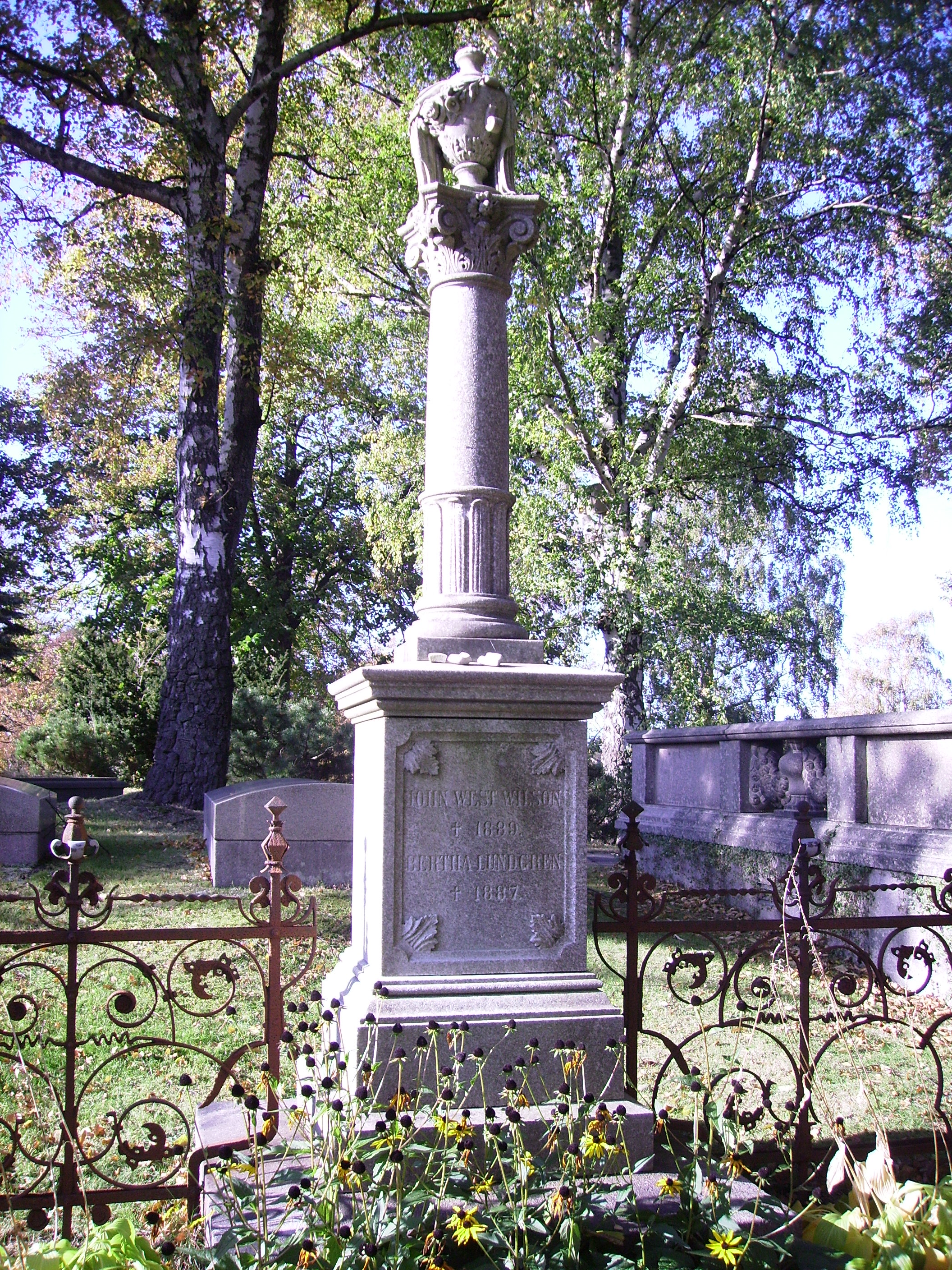 Picture of John West Wilson's grave at Östra kyrkogården in Göteborg